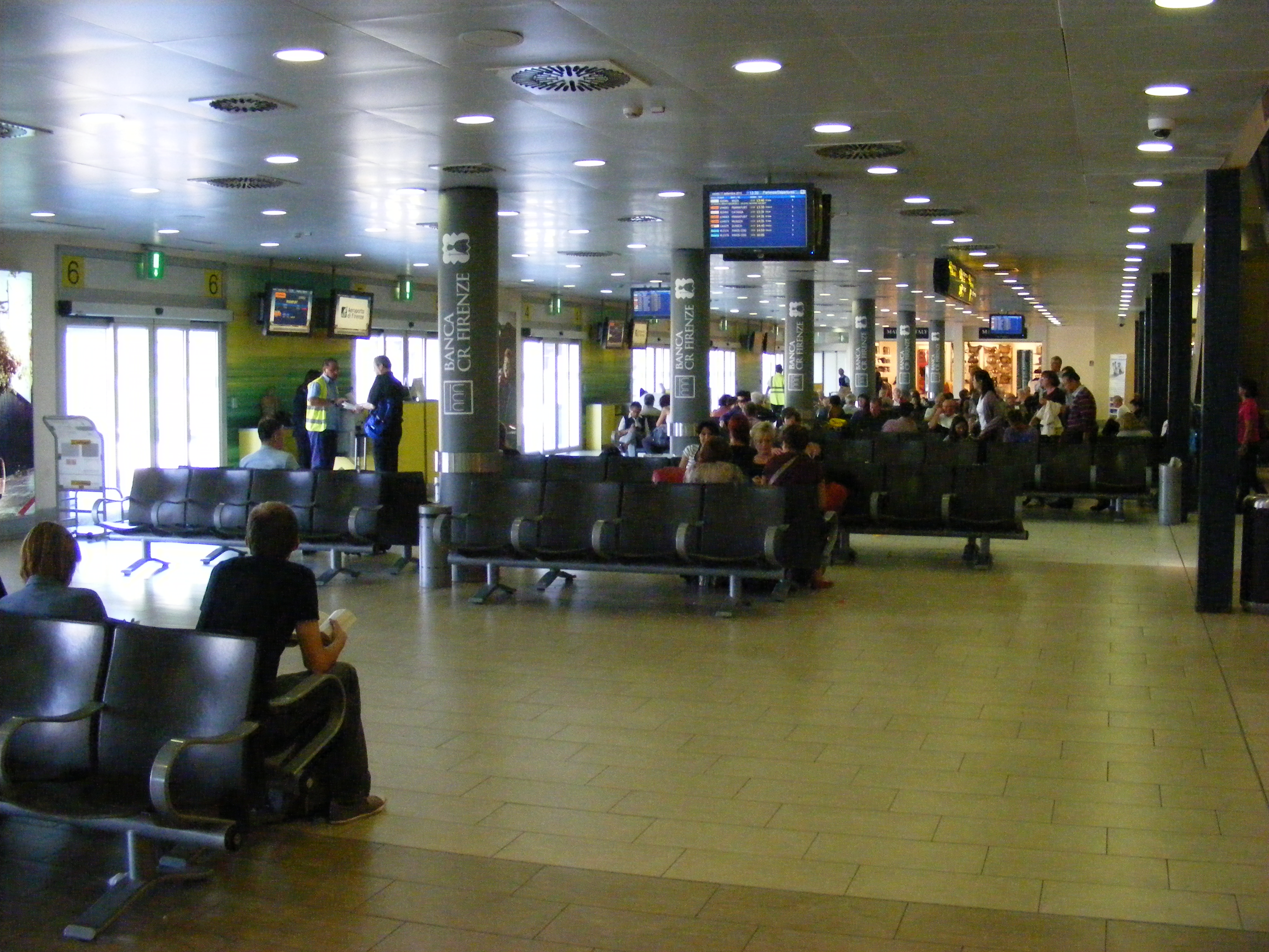 Florence - - Restricted area - Departure area inside.